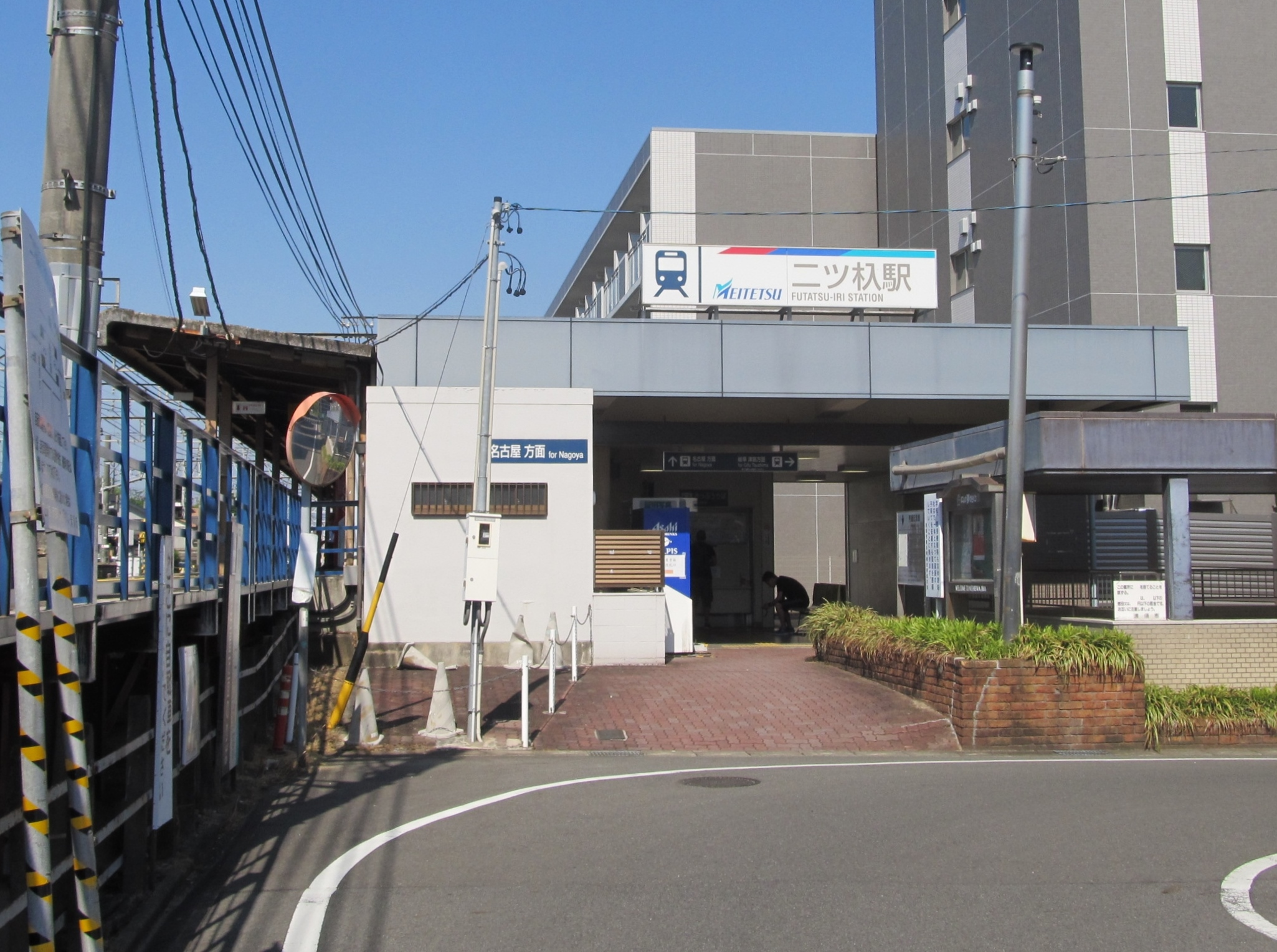 Nagoya Railroad Nagoya Main Line Futatsu-iri Station Building (for Nagoya)